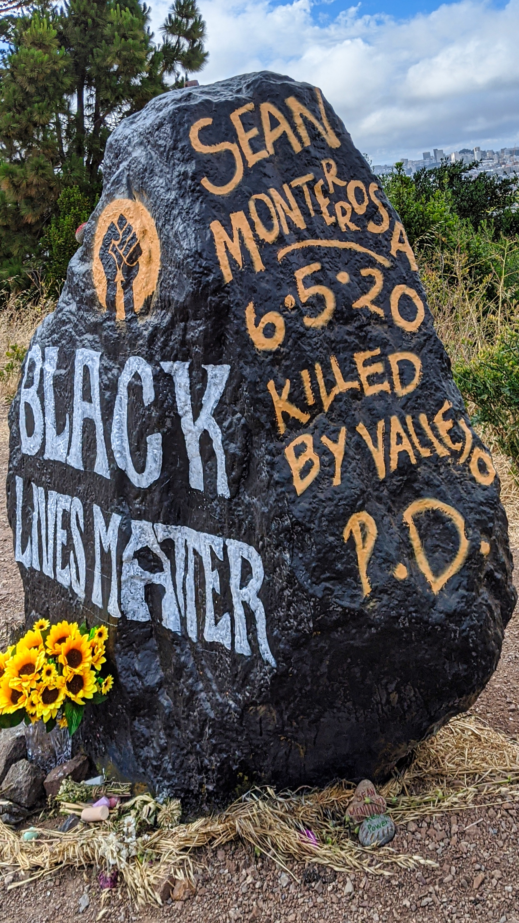 Black Lives Matter Sean Monterrosa